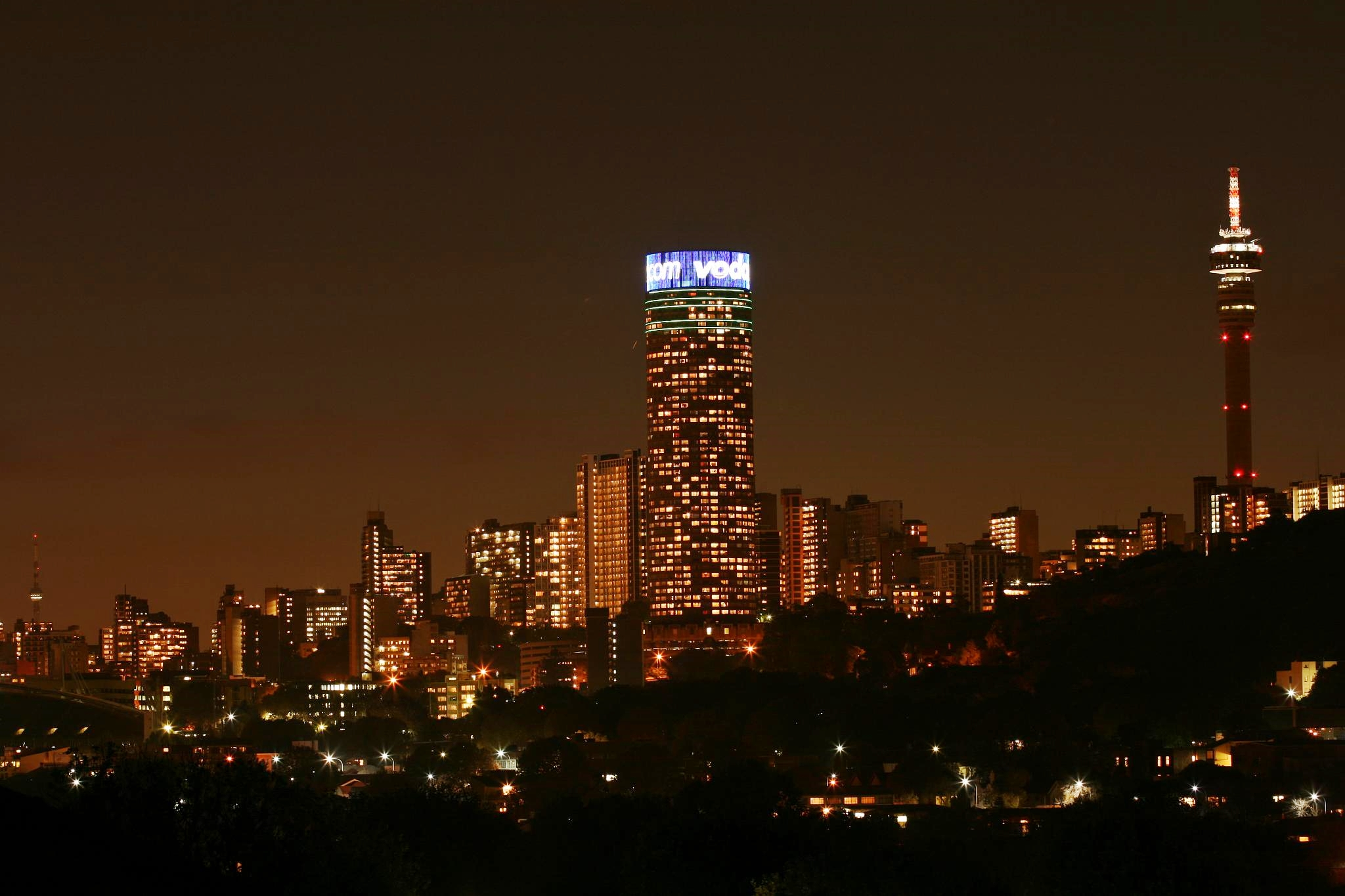 Johannesburg at night, South Africa